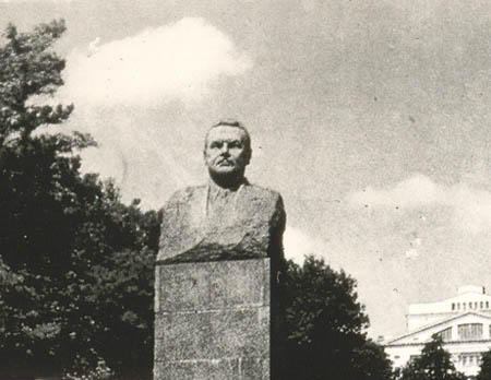 Mariupol old photo